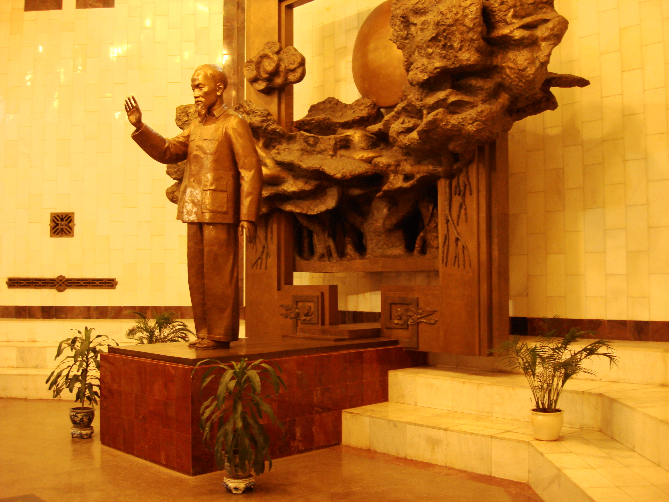 Hồ Chí Minh (May 19, 1890 – September 2, 1969) was a Vietnamese revolutionary and statesman, who later became prime minister (1946–1955) and president (1946–1969) of the Democratic Republic of Vietnam (North Vietnam). Ho led the Viet Minh independence movement from 1941 onward, establishing the communist-governed Democratic Republic of Vietnam in 1945 and defeating the French Union in 1954 at Dien Bien Phu. He led the North Vietnamese in the Vietnam War until his death; six years later, the war ended with a North Vietnamese victory, and Vietnamese unification followed. He was named by Time Magazine as one of the 100 most influential people of the 20th century,[1] while the former capital of South Vietnam, Saigon, was renamed Ho Chi Minh City in his honor.